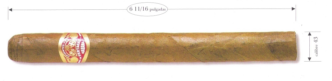 Partagás 8-9-8 Varnished picture